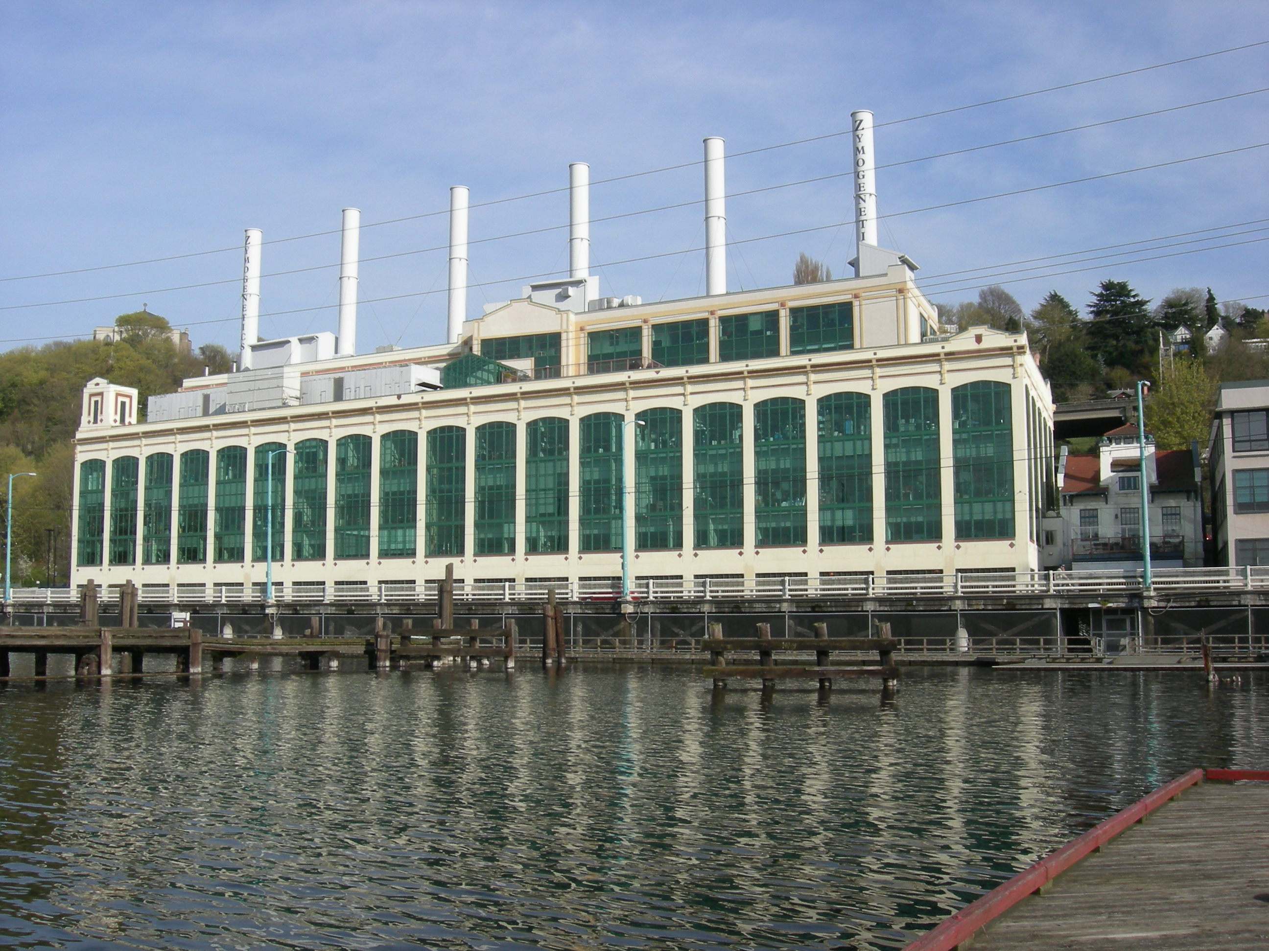 Lake Union Steam Plant, Eastlake, Seattle, Washington. The original small Mission-style Lake Union Water Power Auxiliary Plant was built 1912. It was vastly extended north in 1914, with further additions up to 1921 as City Light Plant No. 3. Eventually, as clean air laws were adopted, the pollution generated by the plant in the heart of the city became unacceptable. The building was eventually repurposed for biotech as Zymogenetics headquarters. The current smokestacks are not the originals, nor are they functional. View from the west, across Fairview Avenue. Note that the plant actually extends right up to the lake; this portion of Fairview is built on pilings. St. Mark's Cathedral (Episcopalian) on Capitol Hill is visible background left.